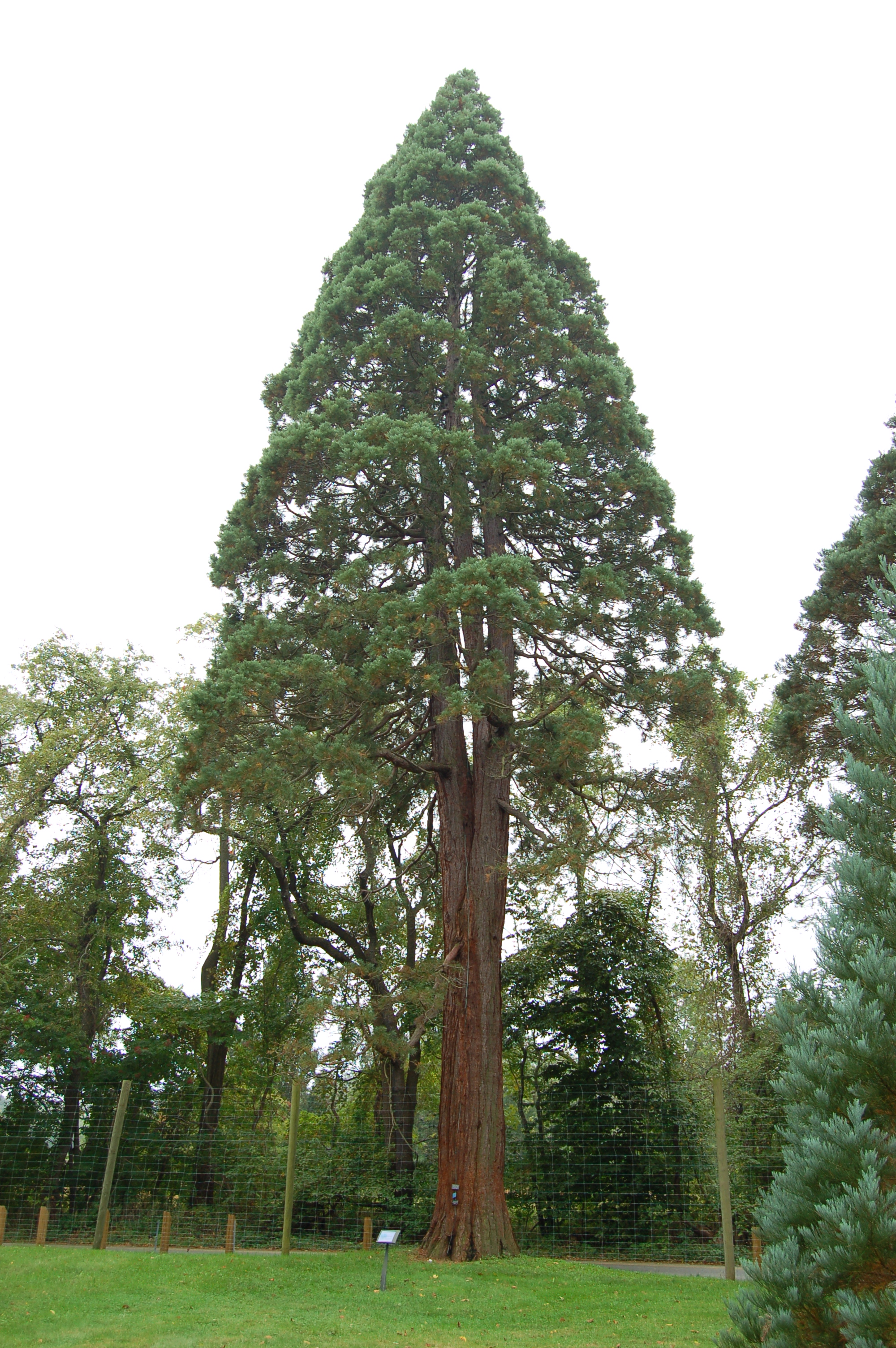 Photograph of the Giant Sequoiaen (Sequoiadendron giganteum en ) at the Tyler Arboretum (where it was identified). The tree has been the Pennsylvania state champion since 1950. It was planted in 1856. The central trunk was cut off in 1895, resulting in a tree with multiple spires (painter_trees.htm). As of 2006, its height is 29 m, its circumference 3.93 m, and it has a spread of 10.9 m (sequoiadendron_giant_sequoia.htm). The tree may be the largest giant sequoia in the eastern United States, however there is a taller one reported in Blithewold Gardens, in Bristol, Rhode Island.